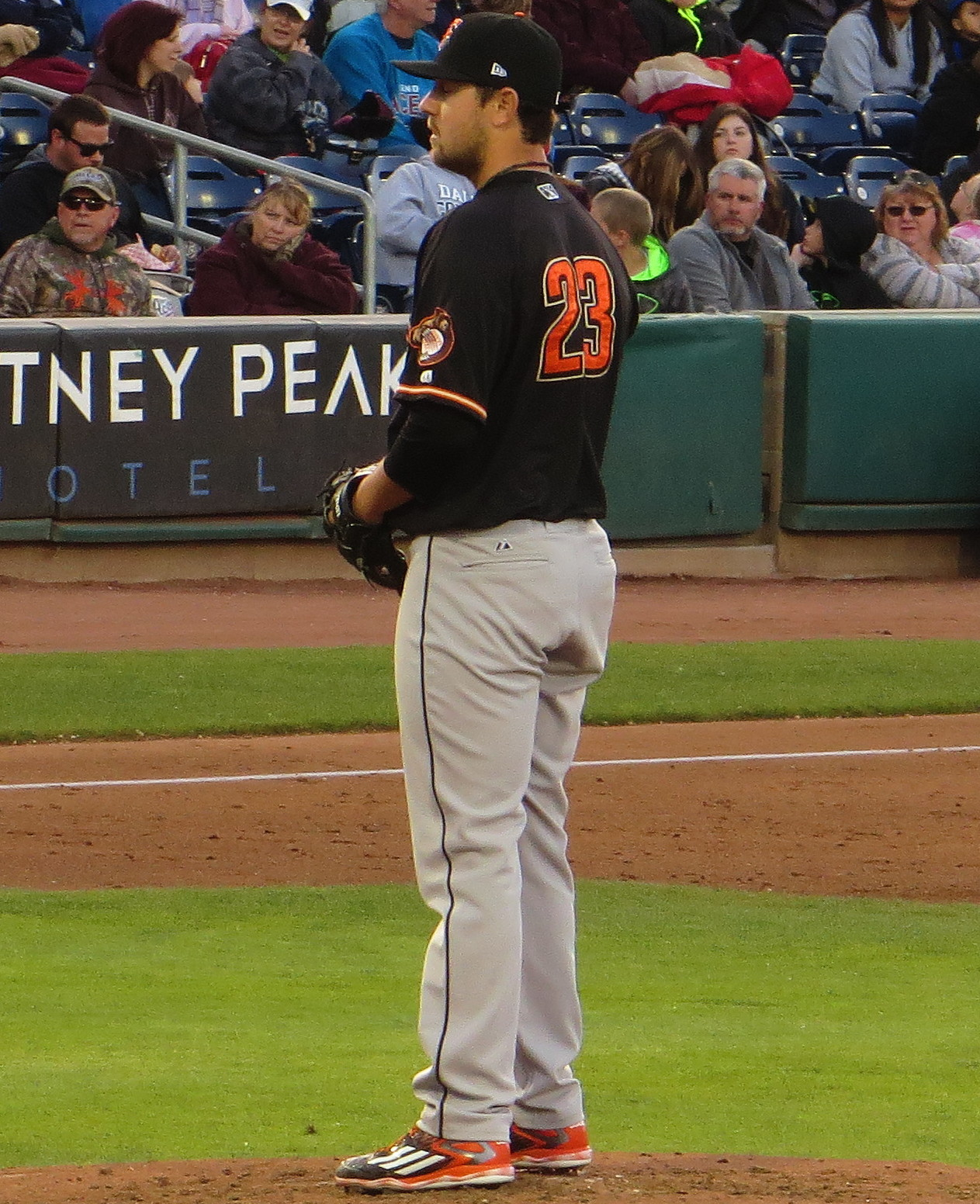 Brady Rodgers on the mound for the Fresno Grizzlies during a 2015 game against the Reno Aces at Greater Nevada Field in Reno, Nevada.